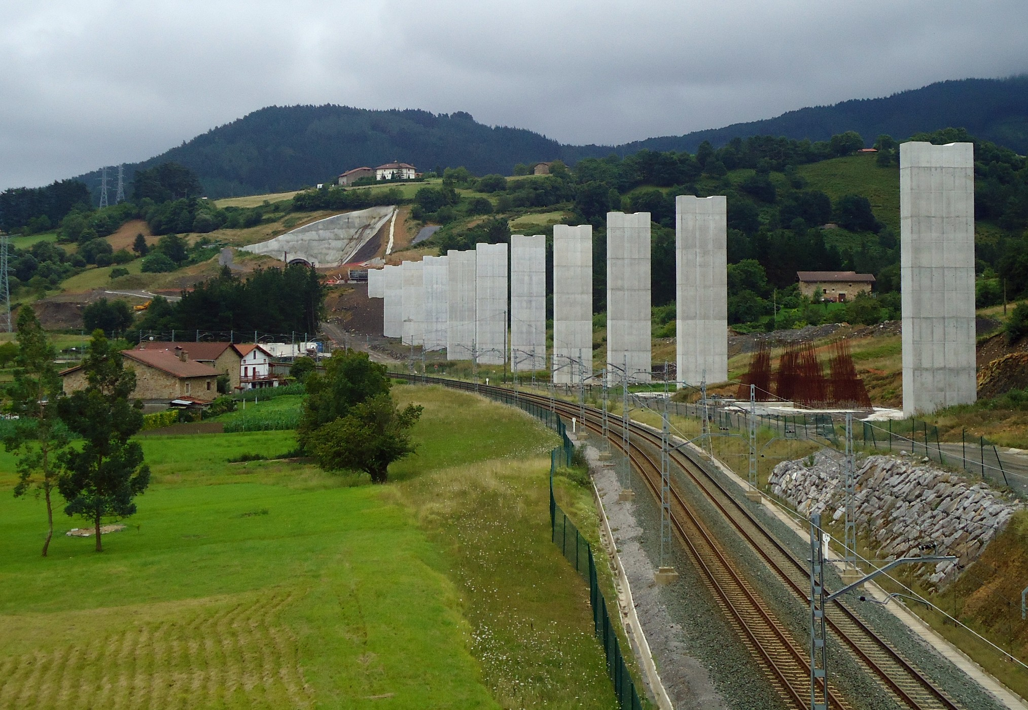 High speed train works in Amorebieta (Biscay, Basque Country)